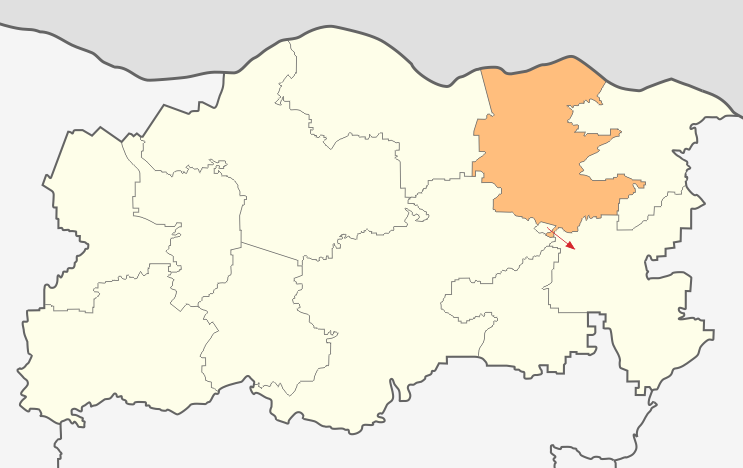 Map of Nikopol municipality, Pleven Province